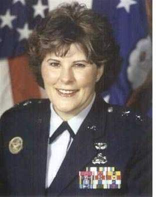 2003 USAF Photograph of Maj. Gen. Susan Pamerleau